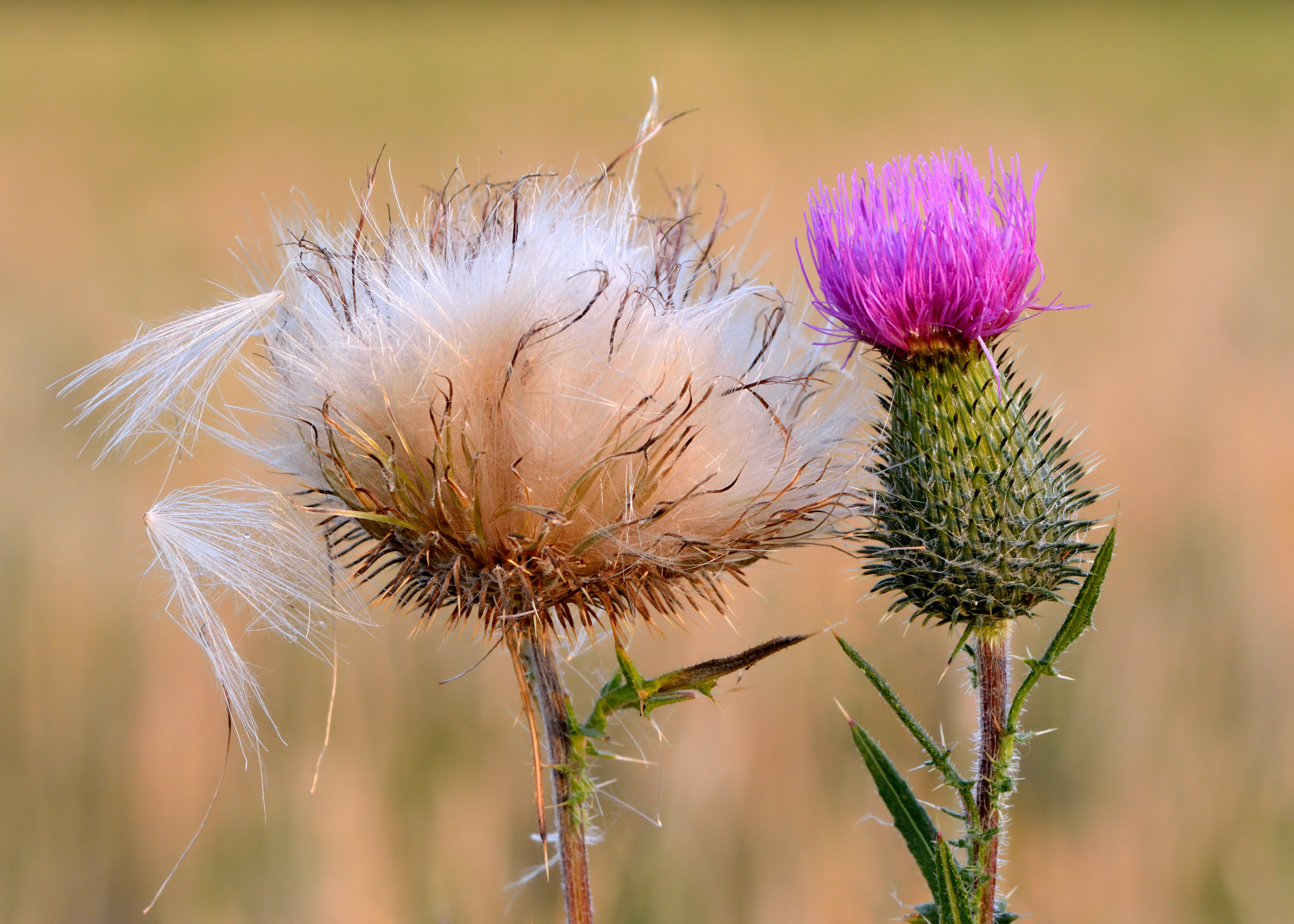 Spear thistle (Cirsium vulgare). Keila, Northwestern Estonia.